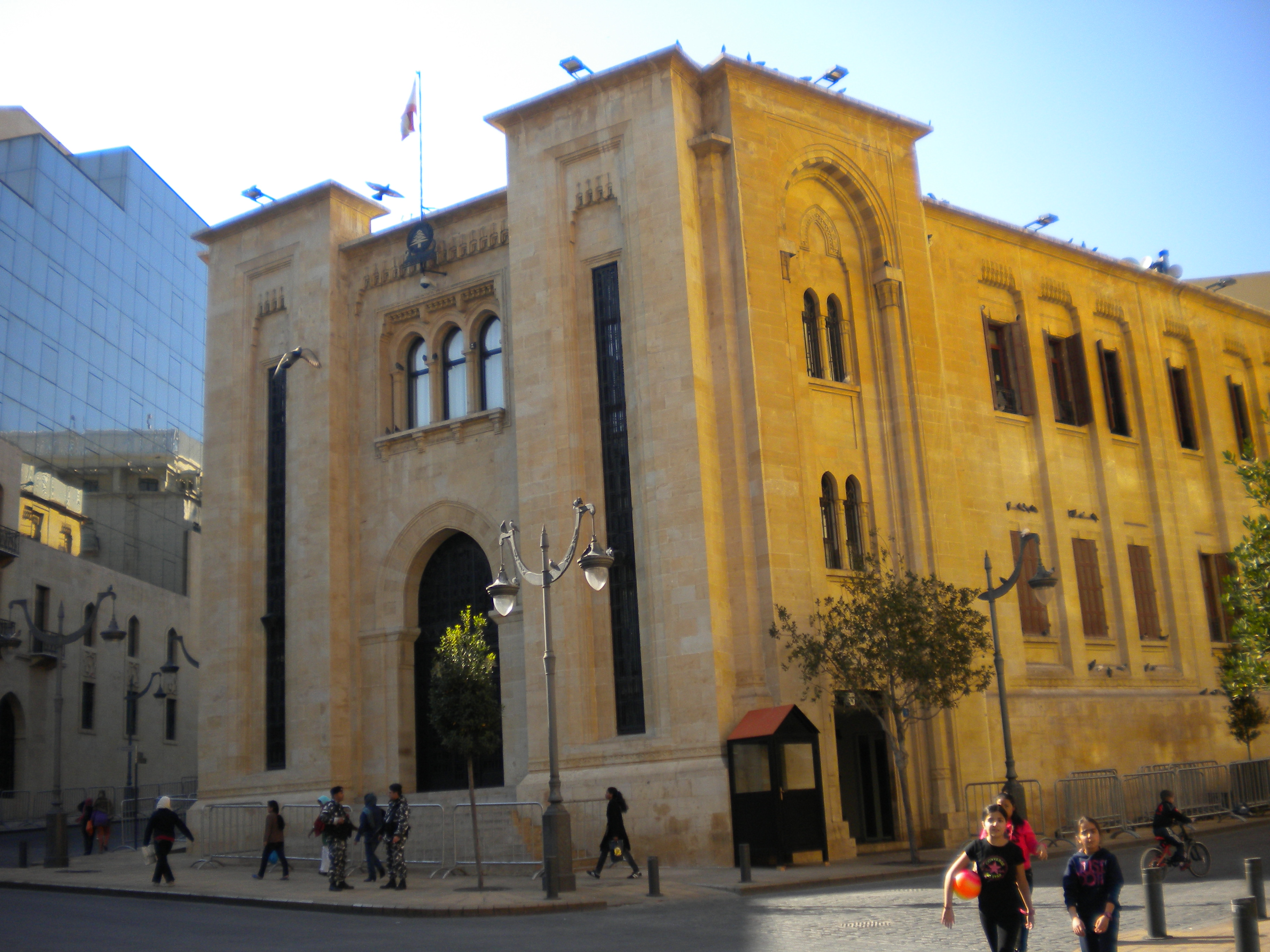 Beirut - Downtown